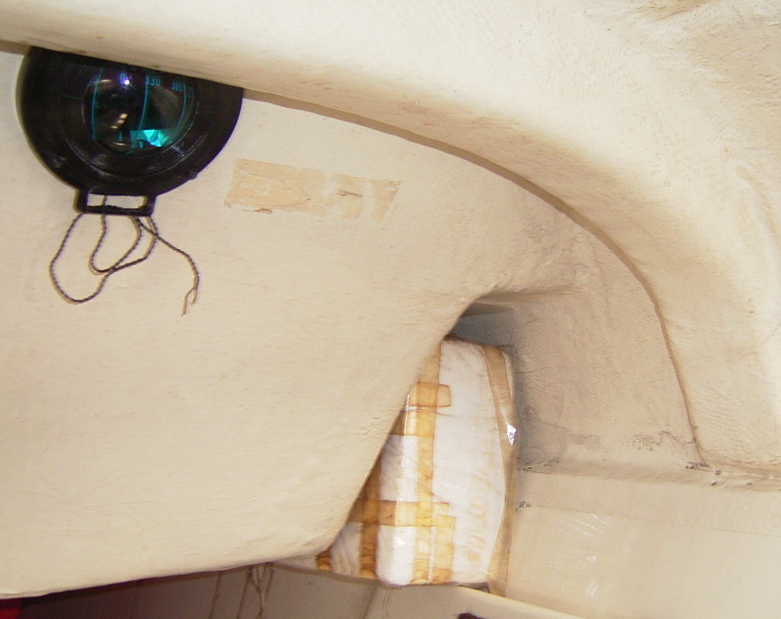 Floating bag (Polystyrene) on a Fam